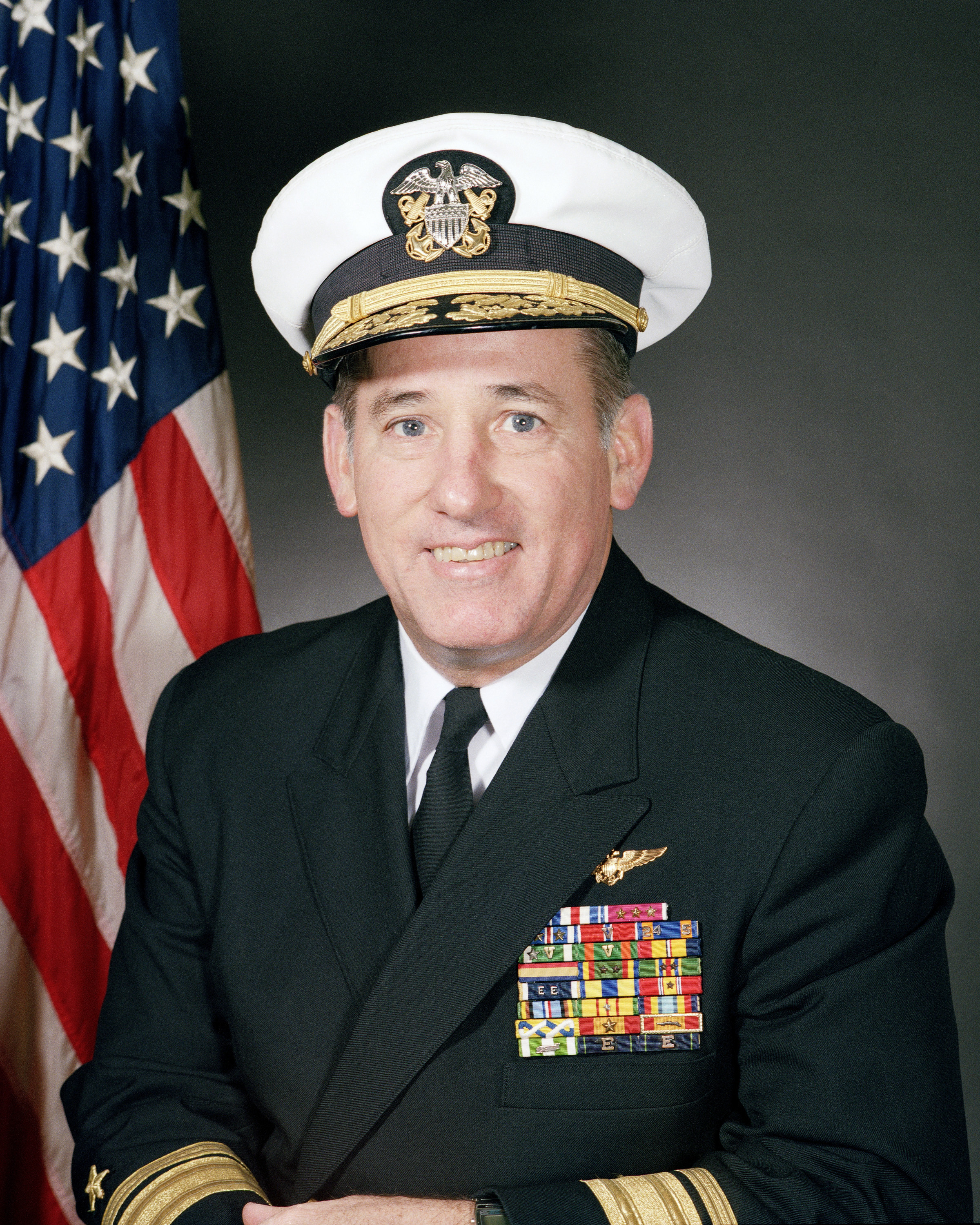 Rear Adm. (upper half) James H. Flatley III